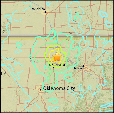 M5.8 - 15km NW of Pawnee, Oklahoma ; based on further analysis, magnitude = from 5.6 to 5.8 on 9/7/2016.